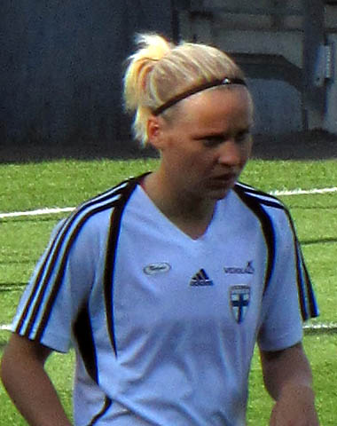 Essi Sainio during warmup of Finland - Northern Ireland friendly match.